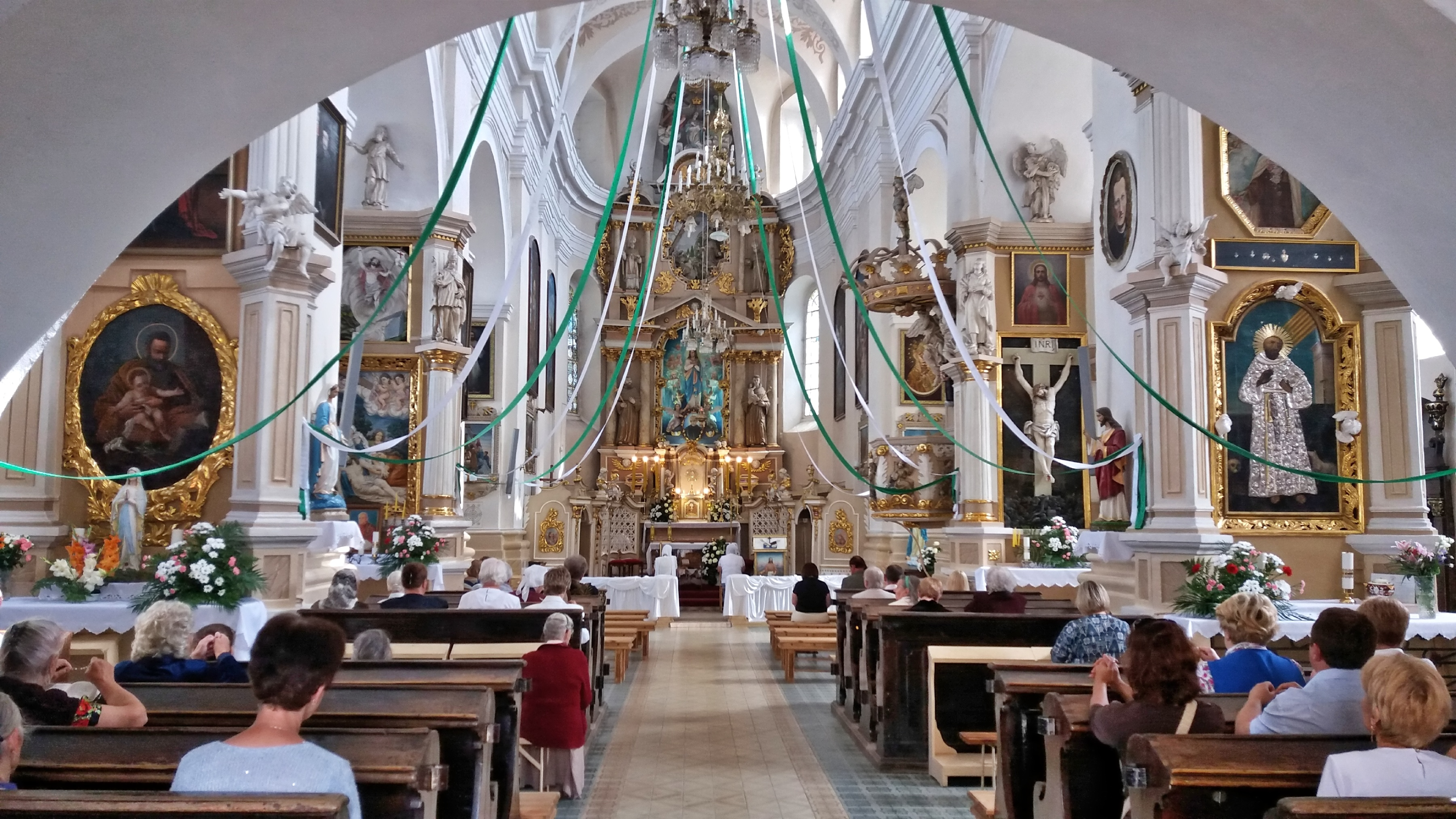 Franciscan church of St. Mary of the Angels in Hrodna